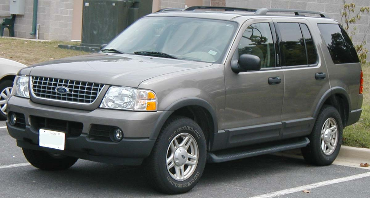 2002-2005 Ford Explorer photographed in USA.